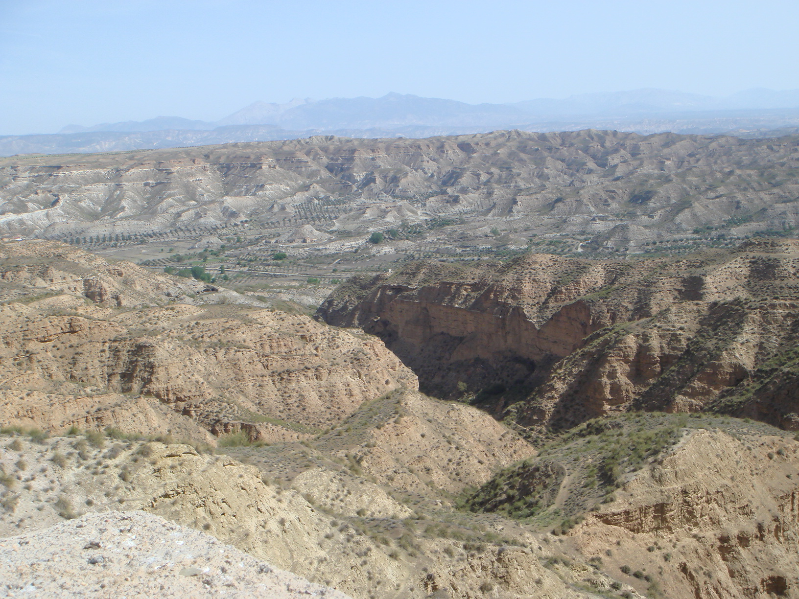 Hoya de Guadix (Guadix valley) Spain , Granada province.